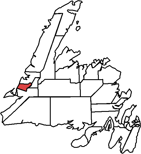 Maps based on images by Earl Warren, from the 2007 elections